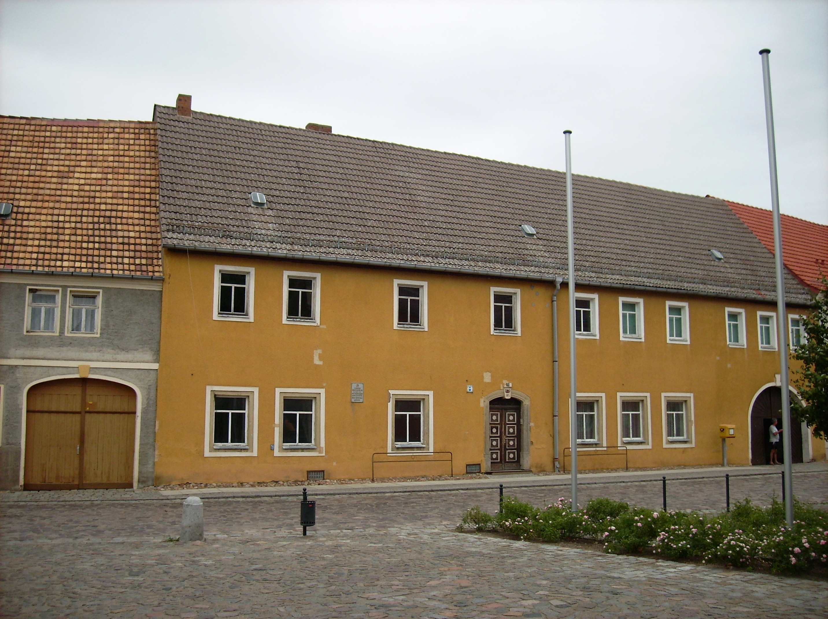 Birthplace of the painter Wilhelm Hasemann at Neustädter Markt in Mühlberg/Elbe (Elbe-Elster district, Brandenburg)